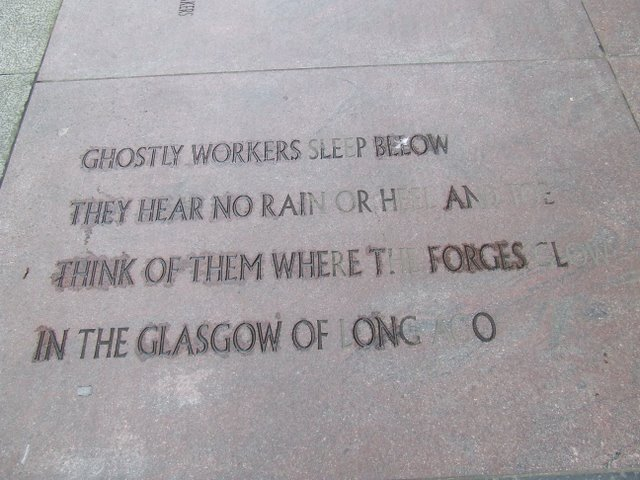 Pavement poetry On Candleriggs outside the City Halls. By Edwin Morgan. Ghostly workers sleep below They hear no rain or heel and toe Think of them where the forges glow In the Glasgow of long ago